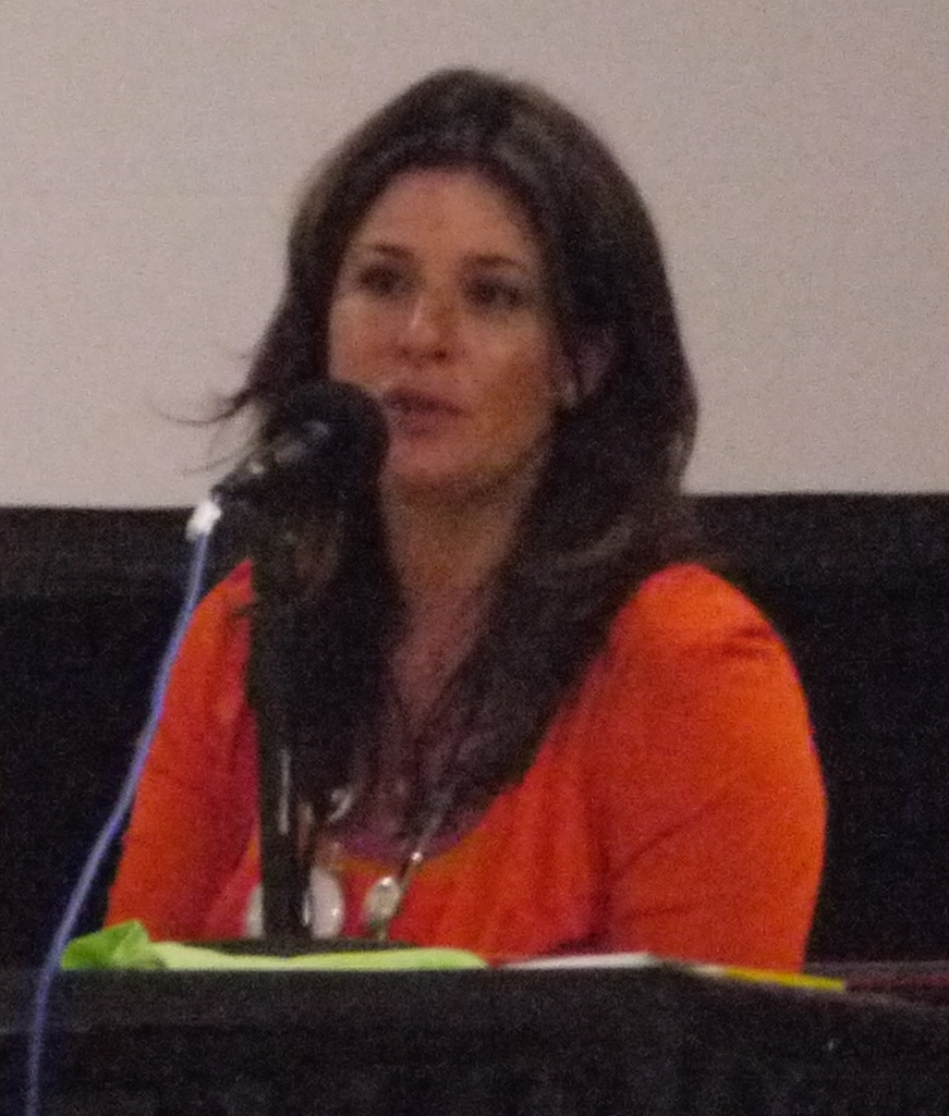 Nicole Oliver at the 2012 Summer BronyCon (Cropped from File:Ashleigh ball nicole oliver bronycon summer 2012 02.jpg